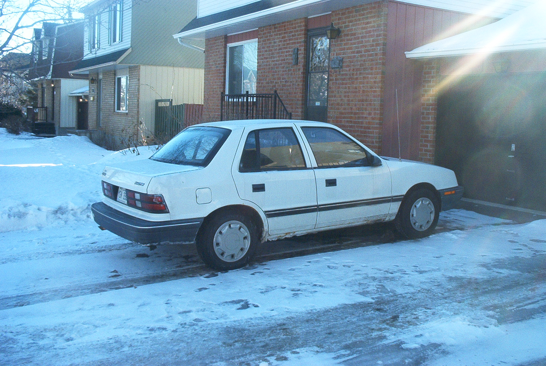 Dodge Shadow Sedan